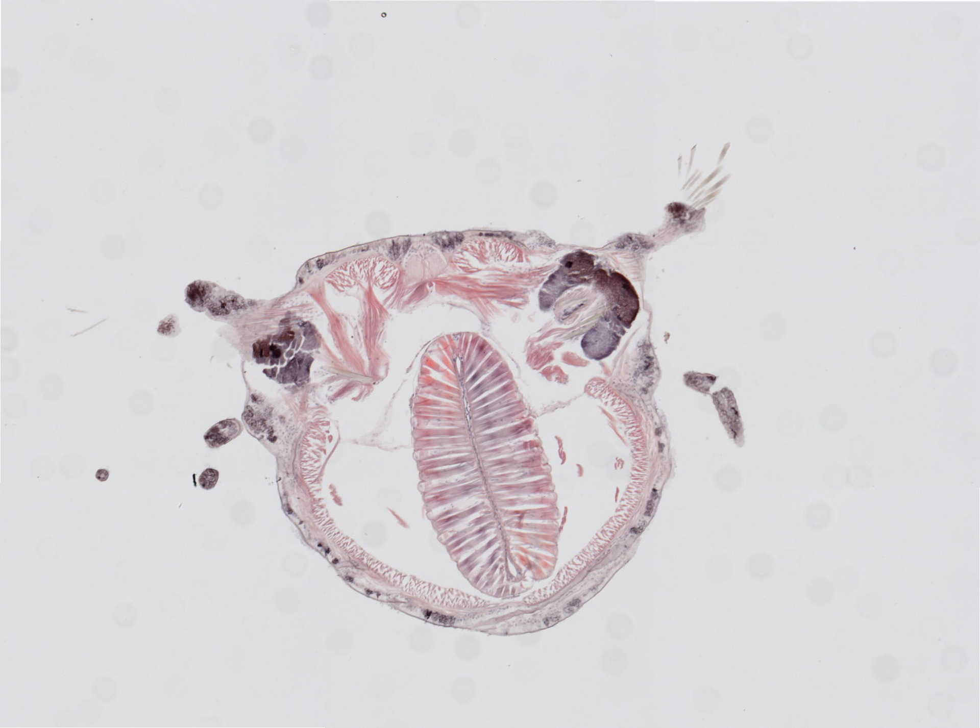 PRESERVED_SPECIMEN; ; ; microslide; IZ number 98088; lot count 1; Microslide 01, balsam, serial section; Microslide 02, balsam, serial section; Microslide 03, balsam, serial section; Microslide 04, balsam, serial section; Microslide 05, balsam, serial section; Microslide 06, balsam, serial